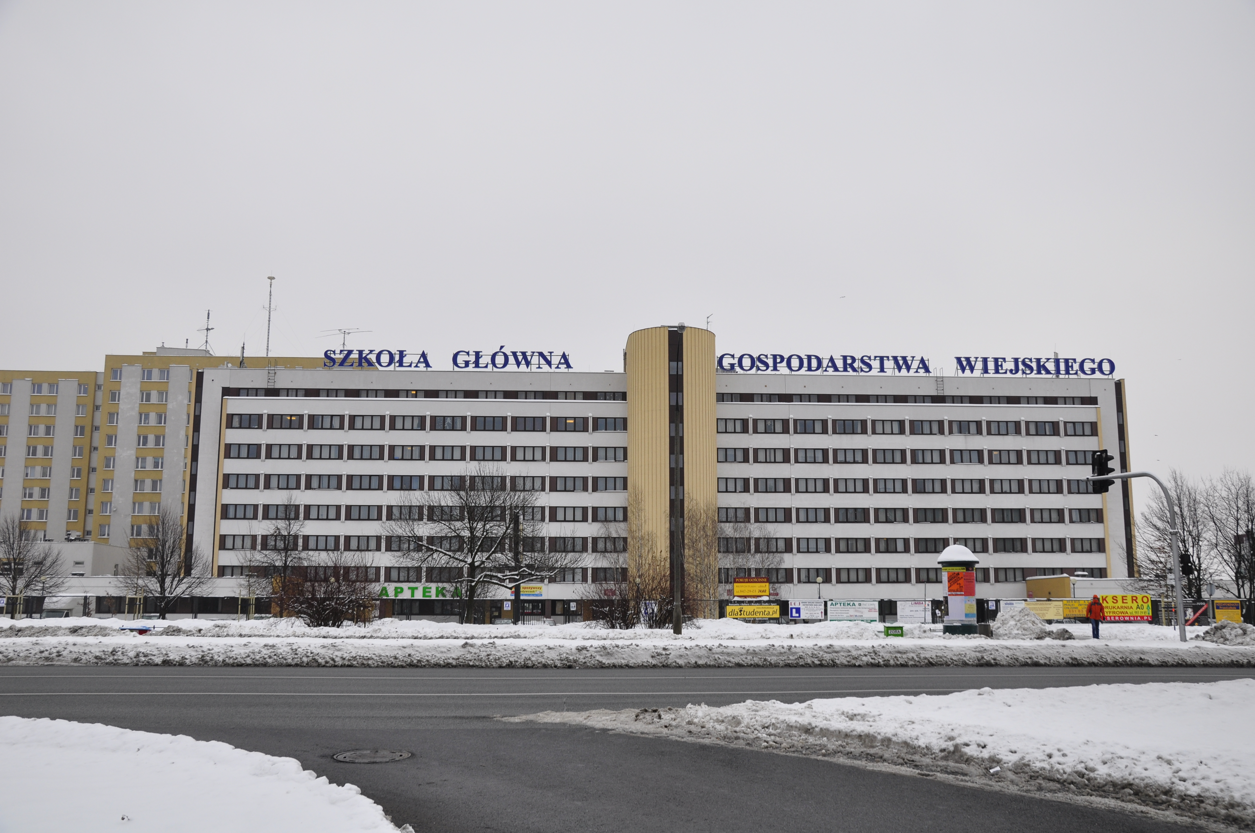 SGGW, dormitory students, ul Rosola